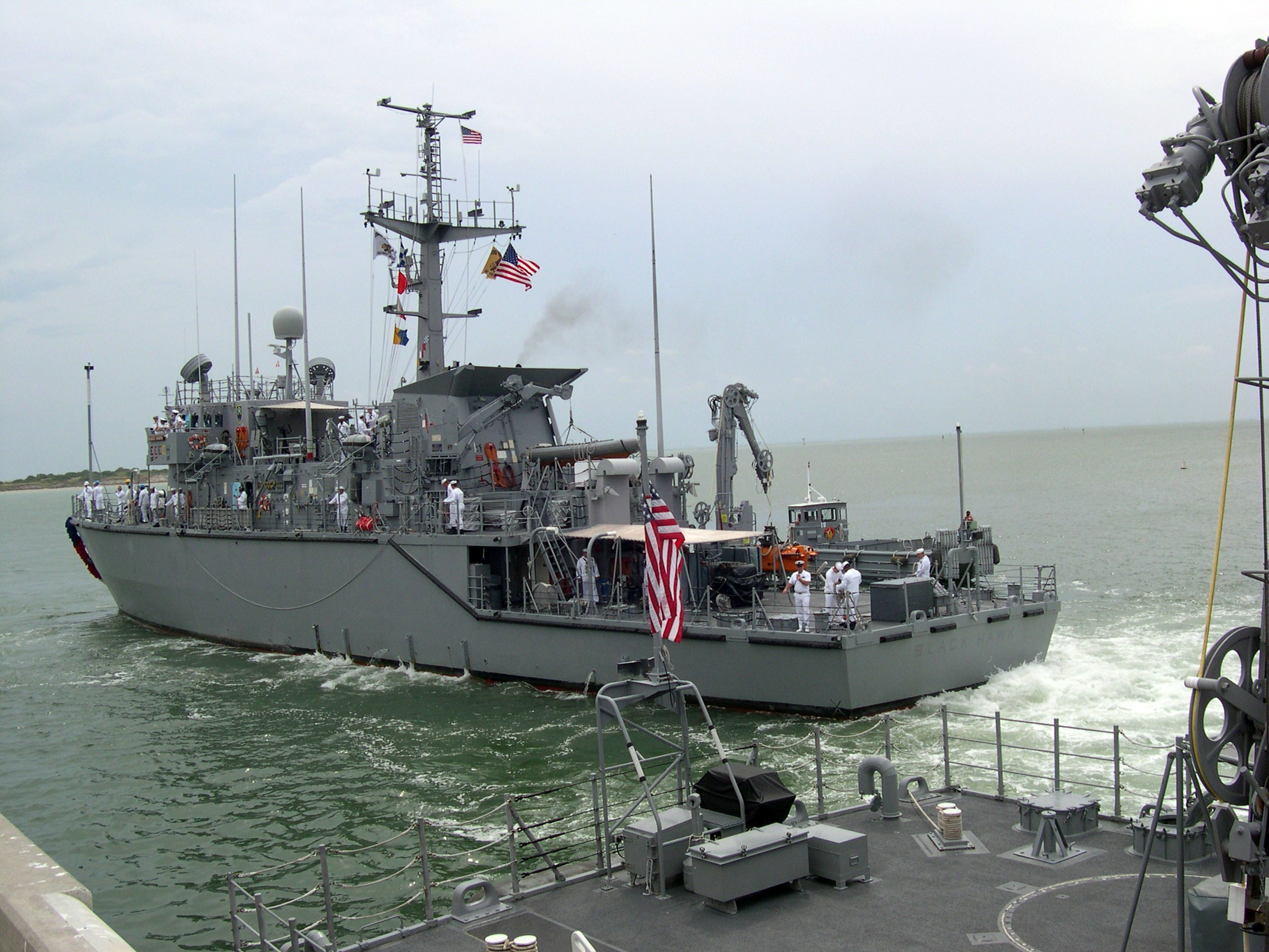 Naval Station Ingleside, Texas (Sept. 1, 2004) — The Osprey-class coastal mine hunter USS Black Hawk (MHC-58) pulls into her homeport in Ingleside, Texas, after a six-month deployment to the Western Atlantic. Black Hawk participated in Commander Joint Task Force Exercise 04-2, a multinational exercise, and a Mine Exercise off the York River in conjunction with the U.S. Coast Guard during their deployment. Black Hawk is assigned to Mine Warfare Readiness Group One within Mine Countermeasures Squadron Two (COMCMRON-2). U.S. Navy photo by